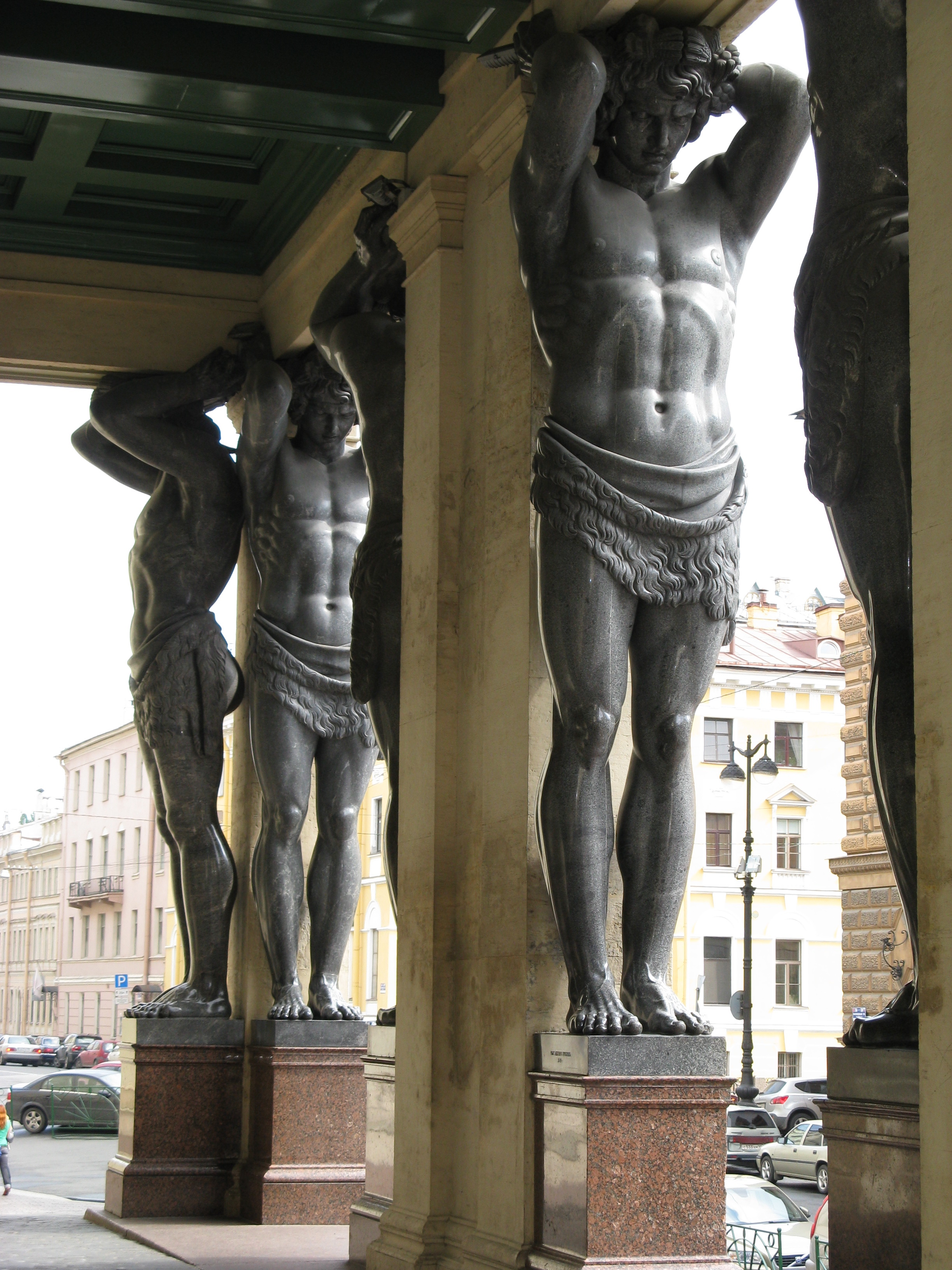 Atlantes cut out of grey granite after the models by sculptor Alexander Terebenev at the New Hermitage.